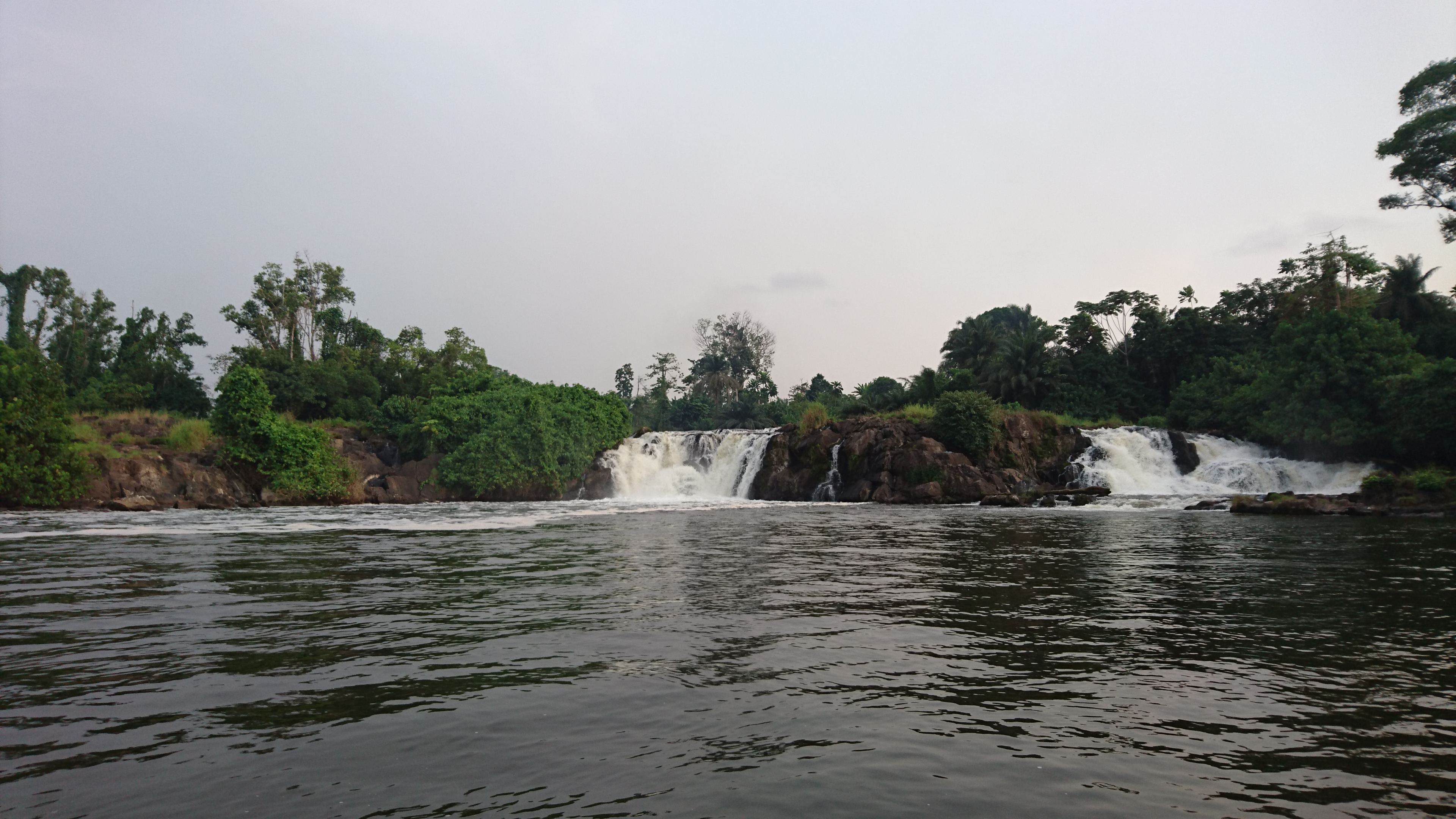 Lobe Waterfalls in Kribi, a city in the southern part of Cameroon, a Country in central Africa.